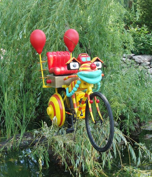 Tom Turbo